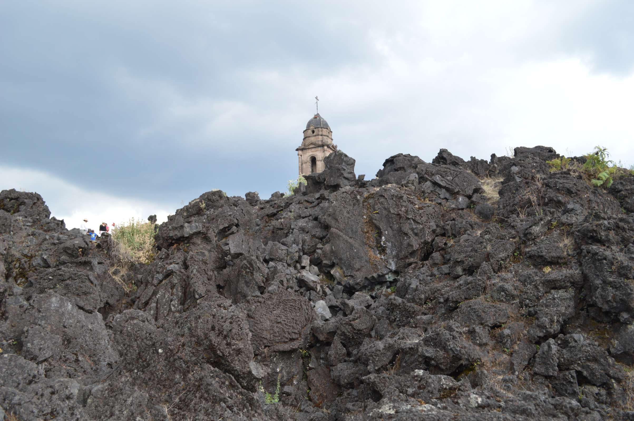 Bell tower of the San Juan Parangaricutiro church peaking up over the hardened lava in Michoacan, Mexico